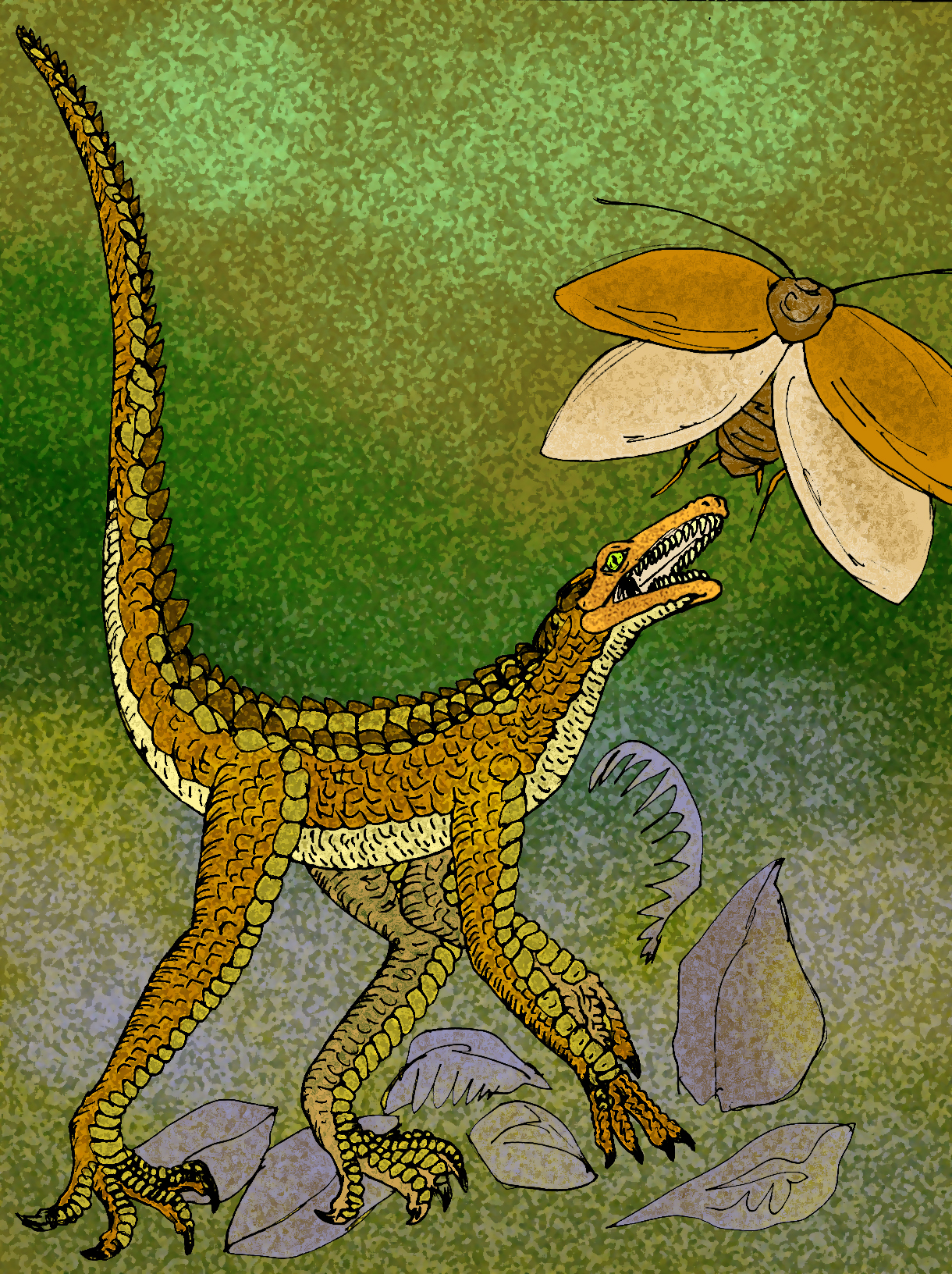 The Triassic crocodile, Terrestrisuchus gracilis, pursuing a cockroach